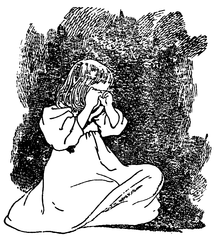 Illustration by Charles Robinson from Alice's Adventures in Wonderland by Lewis Carroll.